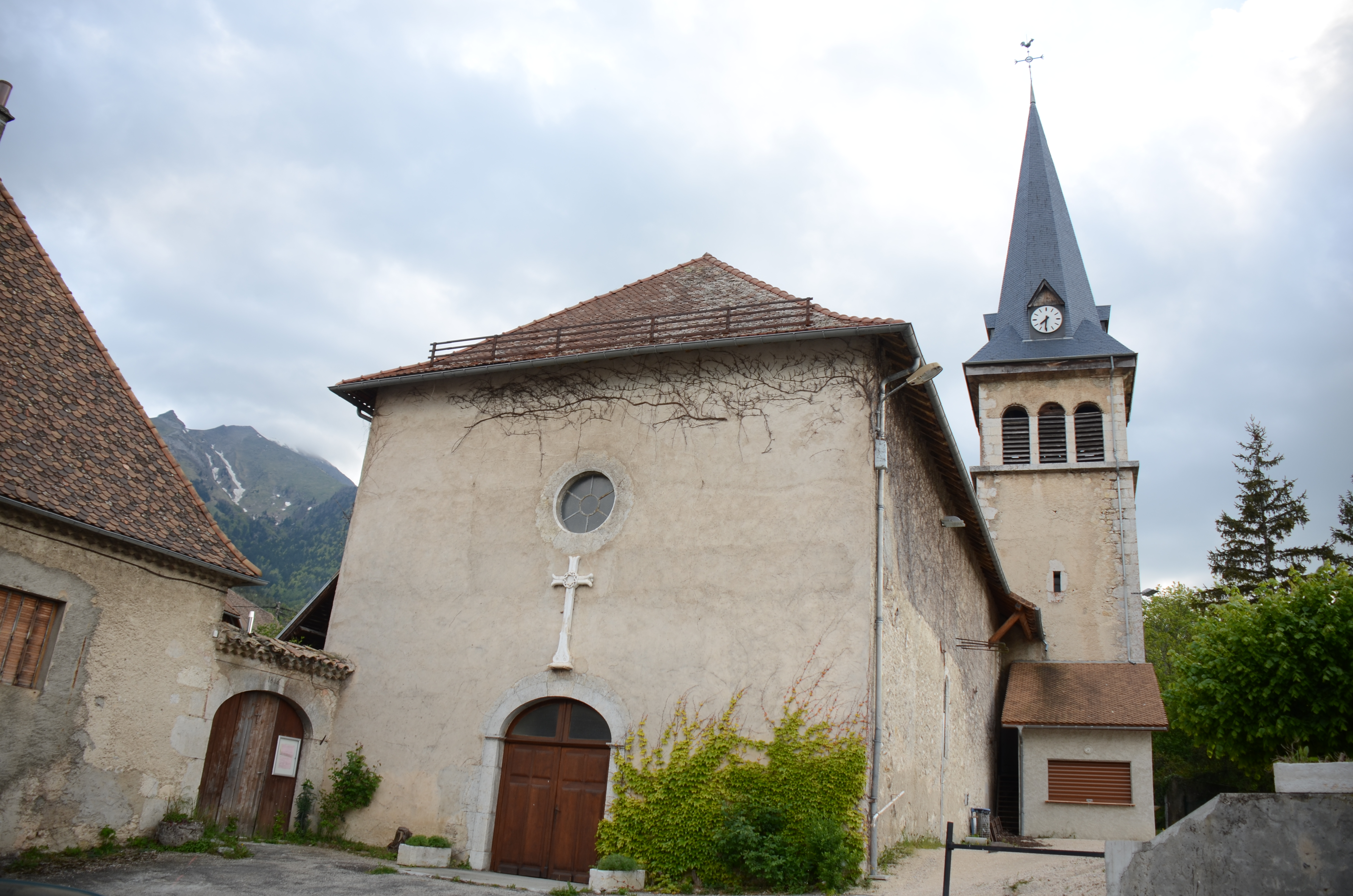 Church of Lalley near Crois de la Haute pass at the road to the Mediterranean sea